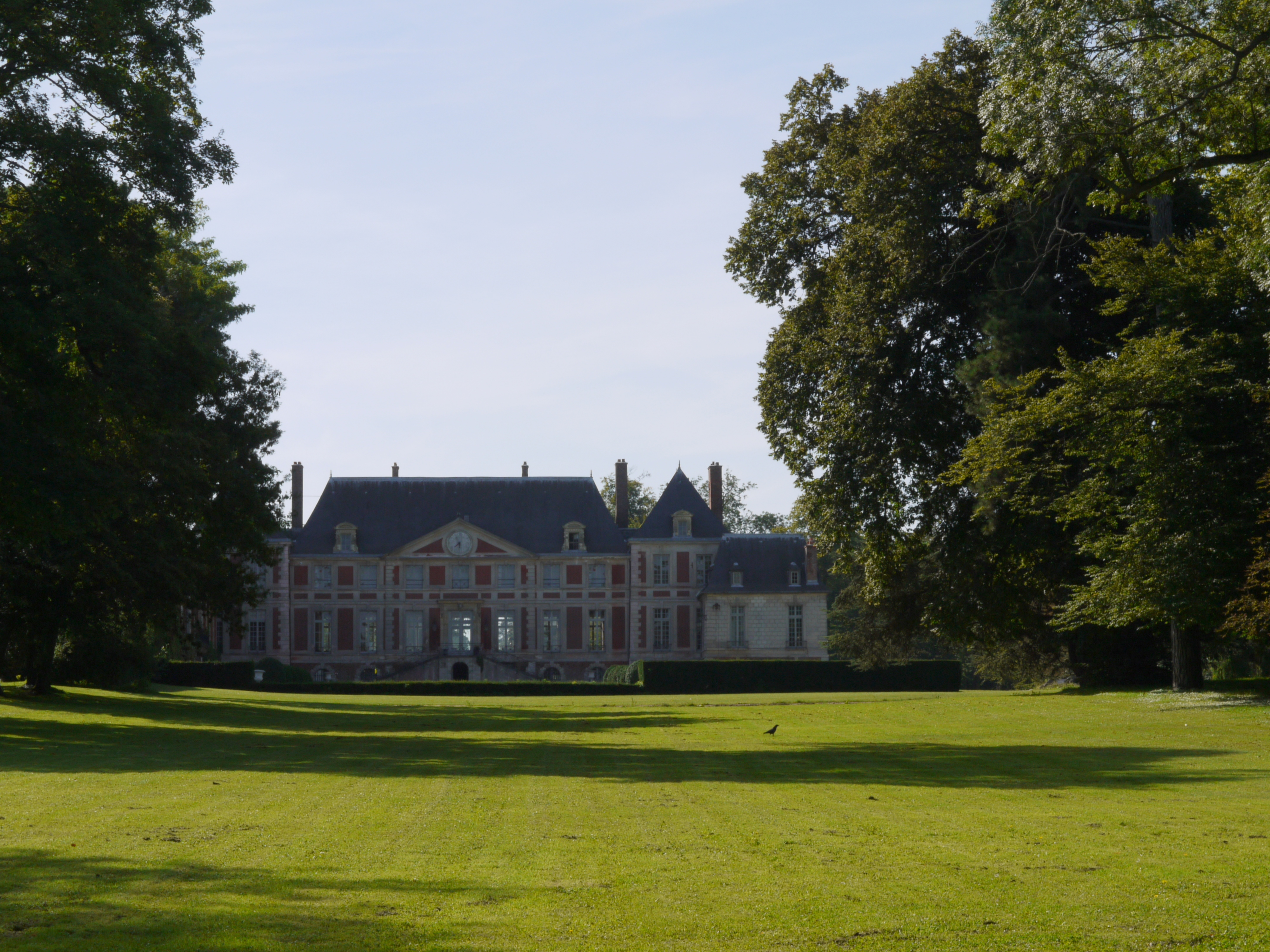 Castle of Guermantes, Guermantes, Seine et Marne, Ile de France